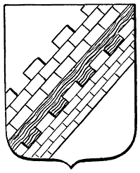 The coat of arms of Ingria (now in Russia) from when it belonged to Sweden.